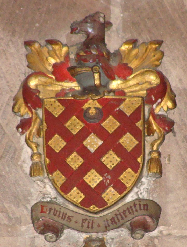 Coat of arms of William Vardon of Goldstone Hall, Shropshire, from his memorial inside Cheswardine Church, Shropshire. The antlers of the deer's head crest above the shield that were part of the original artwork have long since broken off.